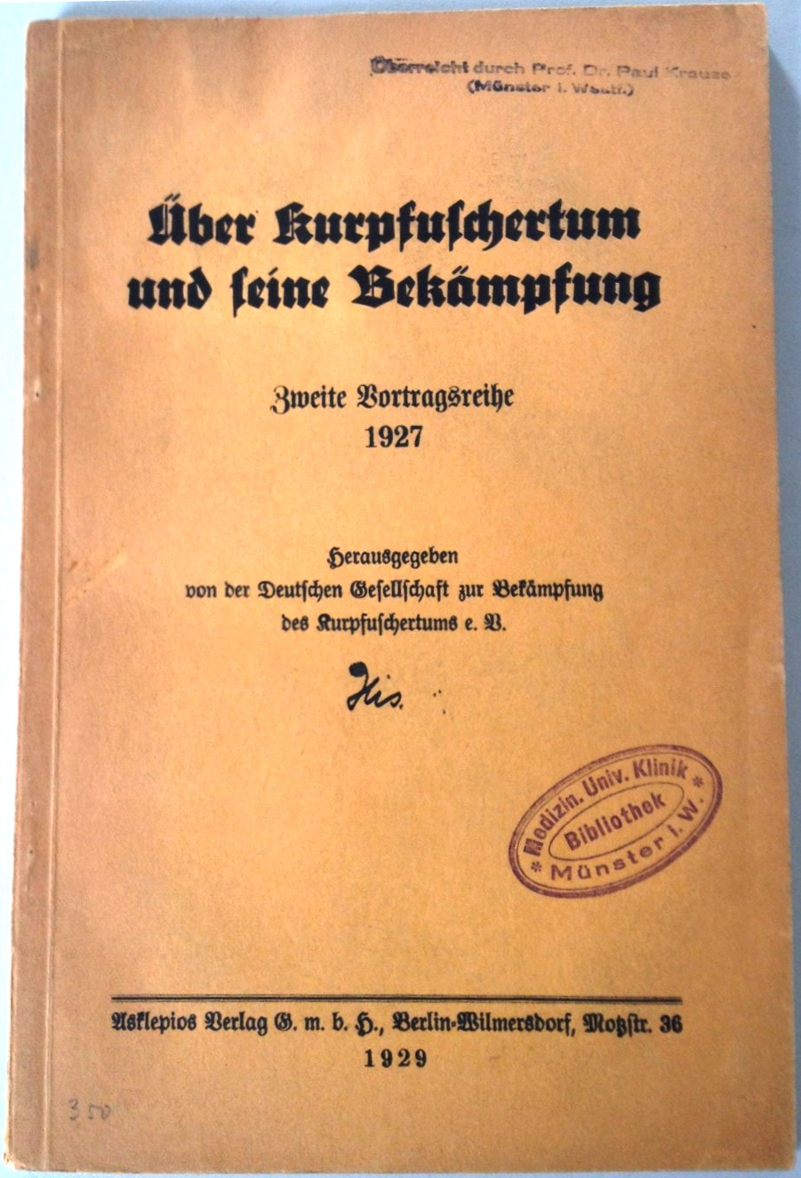 Über Kurpfurschertum und seine Bekämpfung ("On Quackery and How To Fight It") is a 1929 book by the Deutsche Gesellschaft zur Bekämpfung des Kurpfuschertums (German Society for Fighting Quackery).